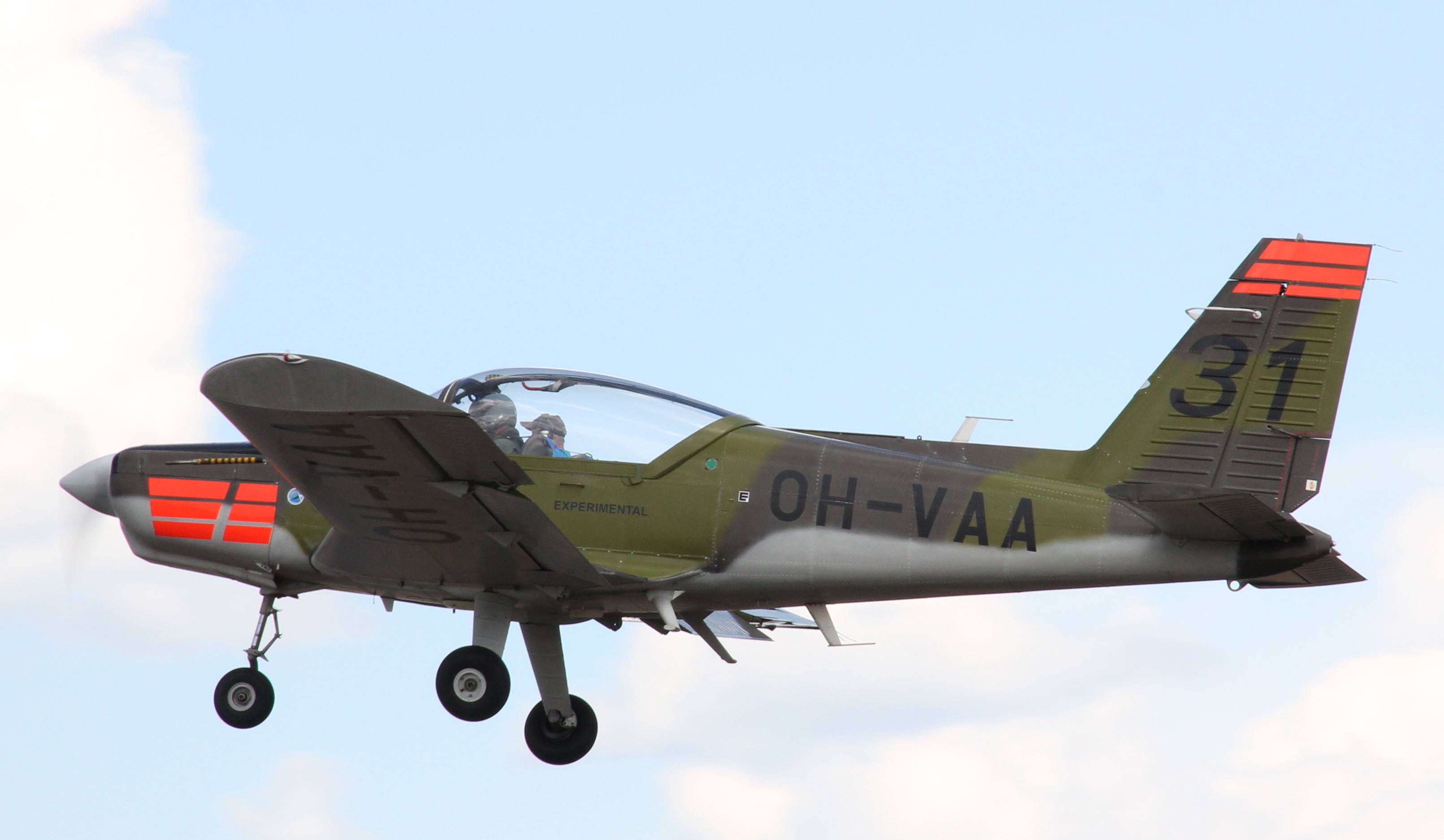 Valmet L-70 Miltrainer, OH-VAA, military trainer aircraft just after takeoff at Oripää Airfield (EFOP), Oripää, Finland. Photo taken during Oripää Air Show 2013. Pilot: Jukka Vainio.